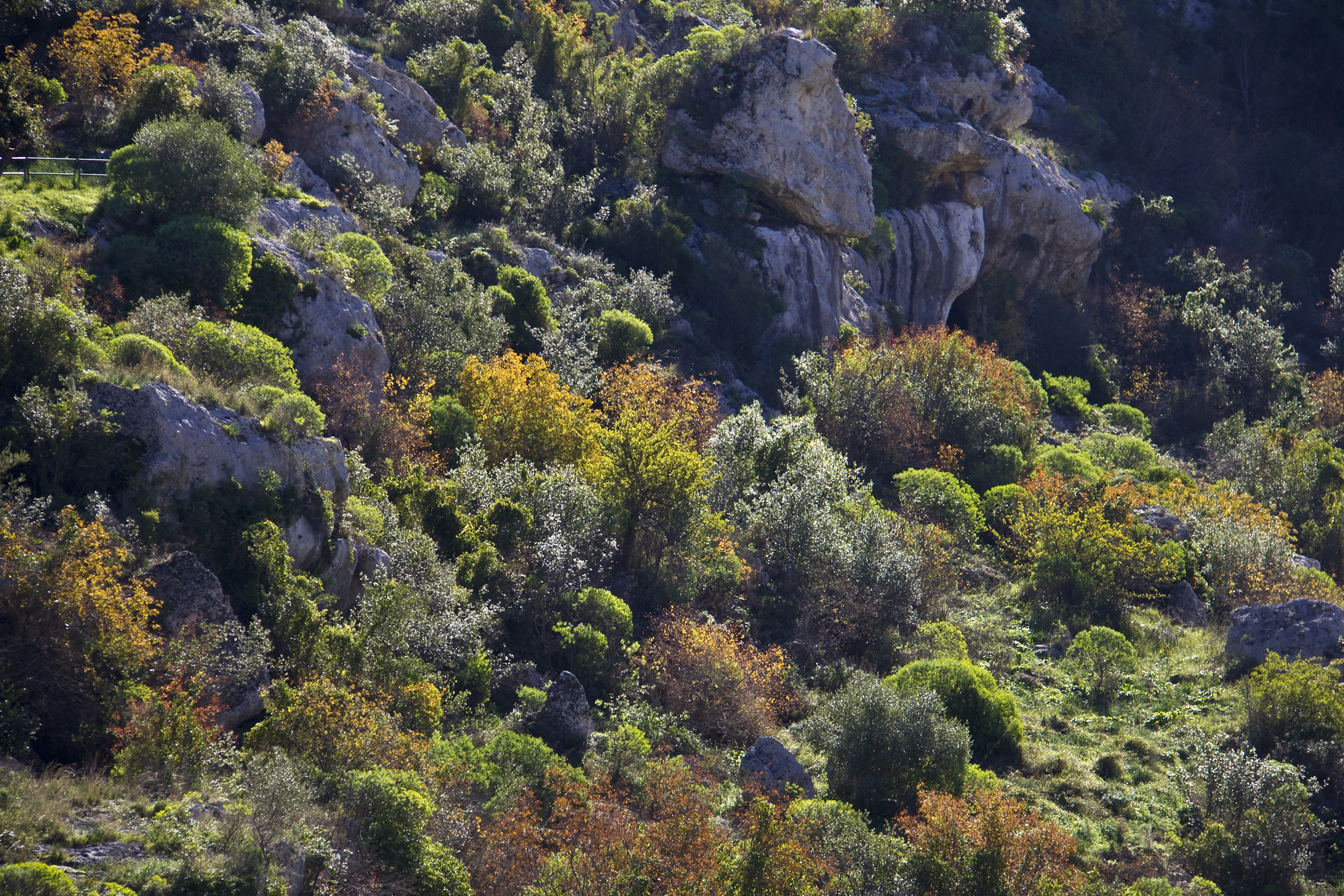 Colors of Pantalica